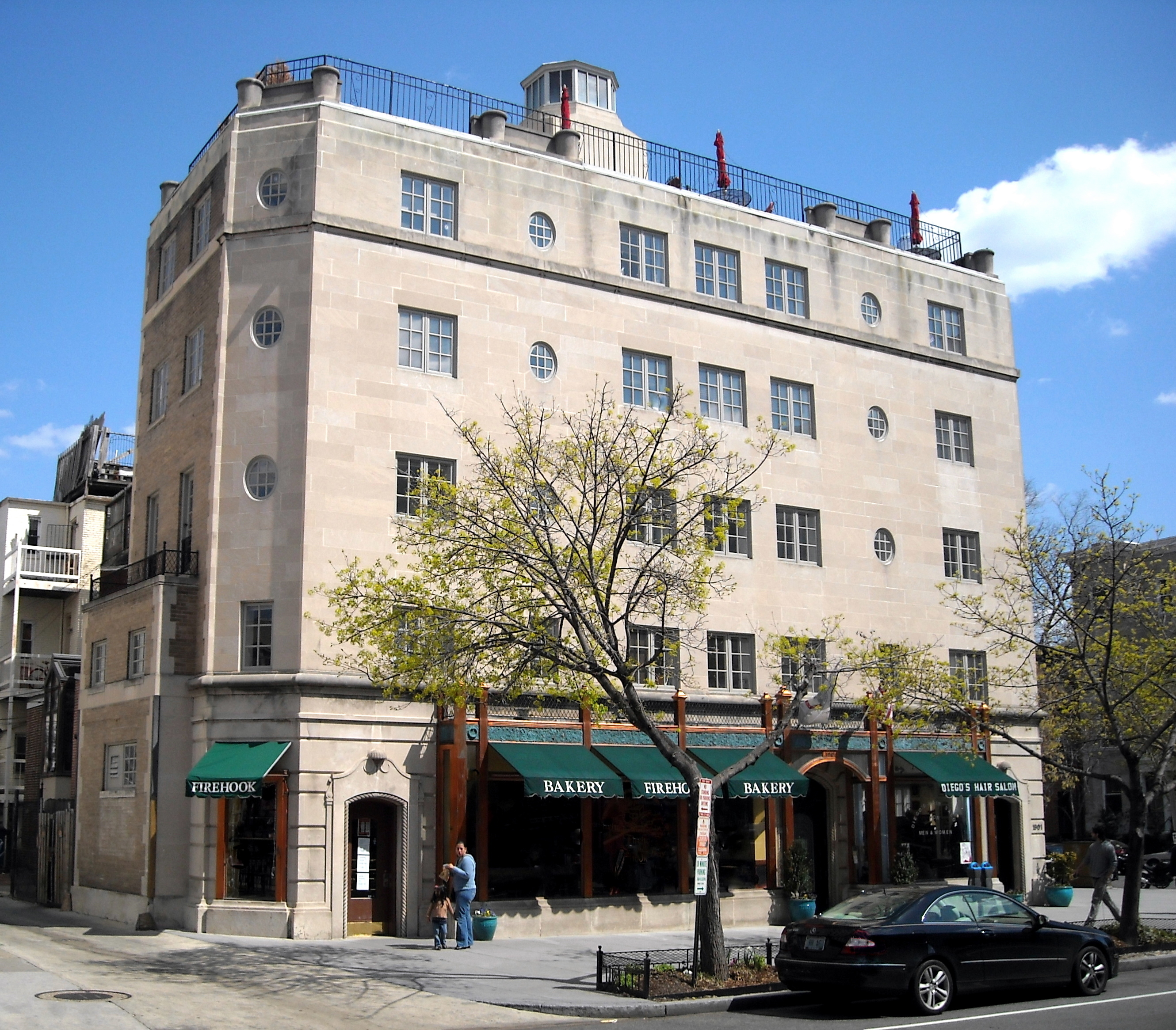 The Moorings, also known as the American Hellenic Educational Progressive Association (AHEPA) headquarters, located at 1901–1909 Q Street, N.W., in the Dupont Circle neighborhood of Washington, D.C. The Art Deco-style building was designed by architect Horace W. Peaslee in 1927 and originally served as an apartment house. In addition to AHEPA, current tenants include The Cultural Landscape Foundation, Firehook Bakery & Coffee House, and Diego's Hair Salon. The Moorings is designated as a contributing property to the Dupont Circle Historic District, listed on the National Register of Historic Places in 1978.